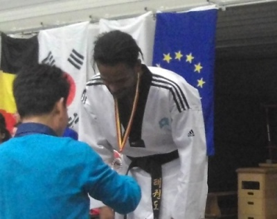 Faisal Jeylani Aweys receiving his medal on the podium after three hard fights in Belgium.